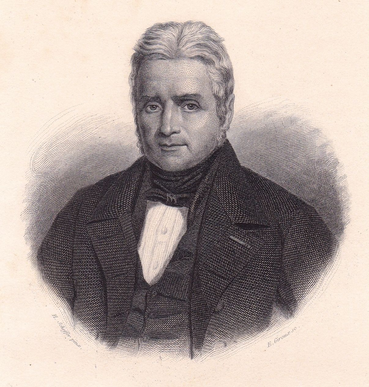 Jacques Laffitte (1767-1844)